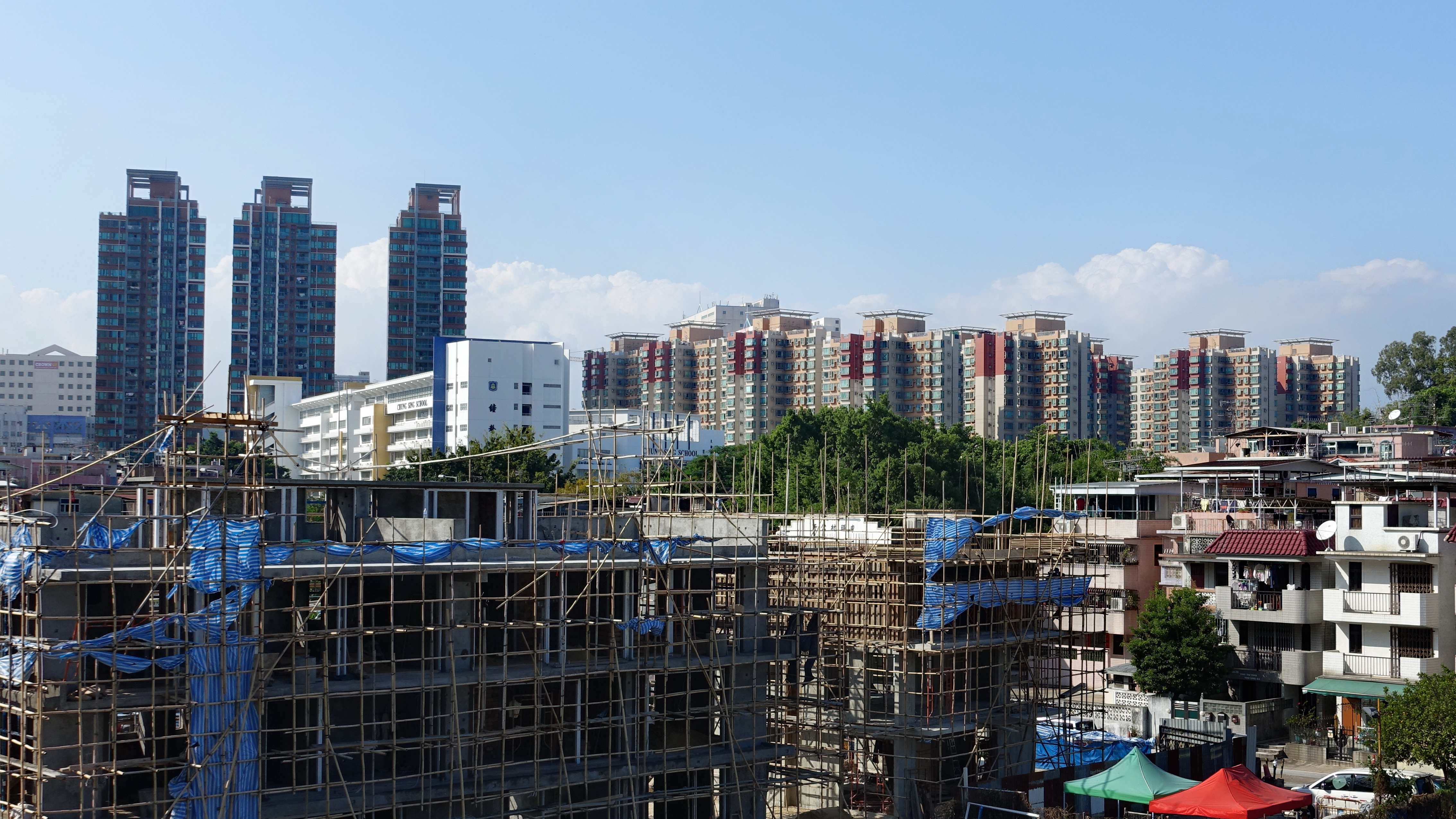 The Parcville, Yuen Long, Hong Kong. (buildings in the far right)(view from Yuen Long Station)